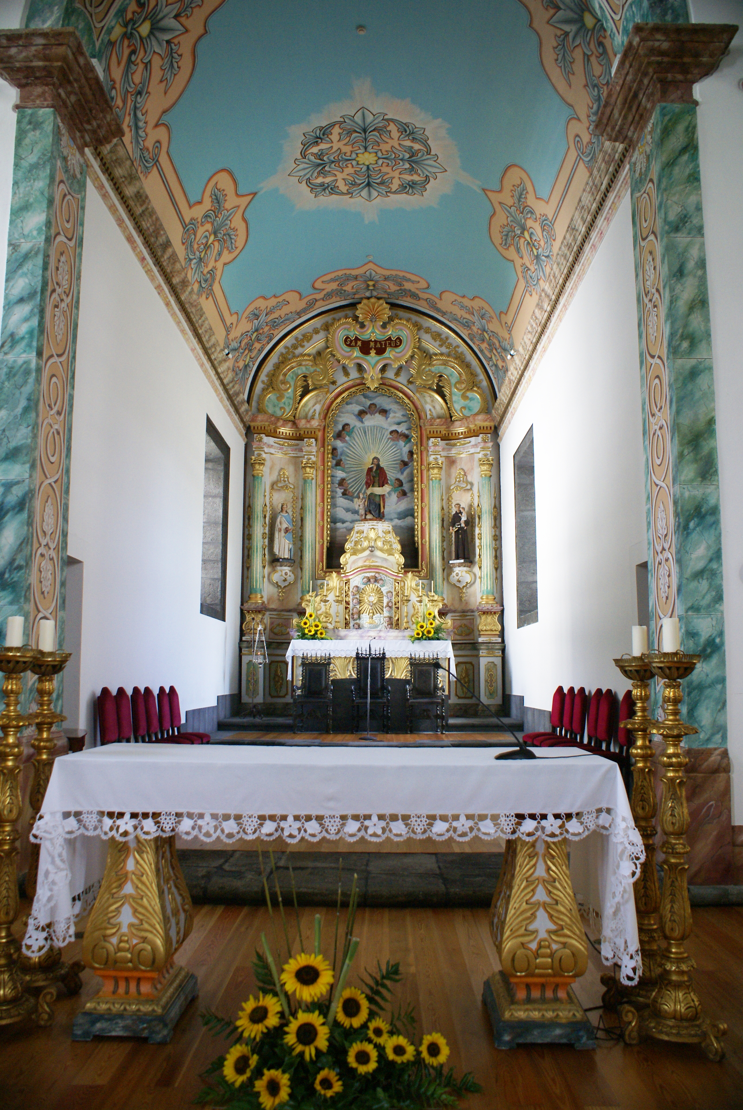 Main alter in the Church of São Mateus, São Mateus, Madalena, Pico (Azores), Portugal